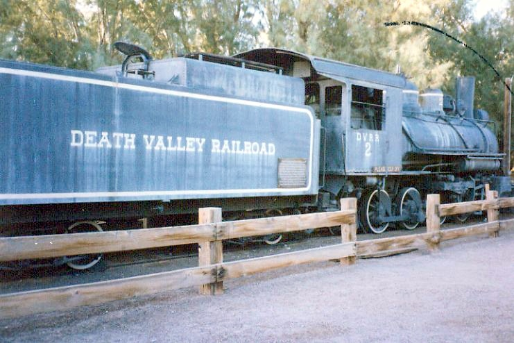 Historical locomotive for Borax-carrying in the Death Valley (Furnace-Creek-Museum), USA